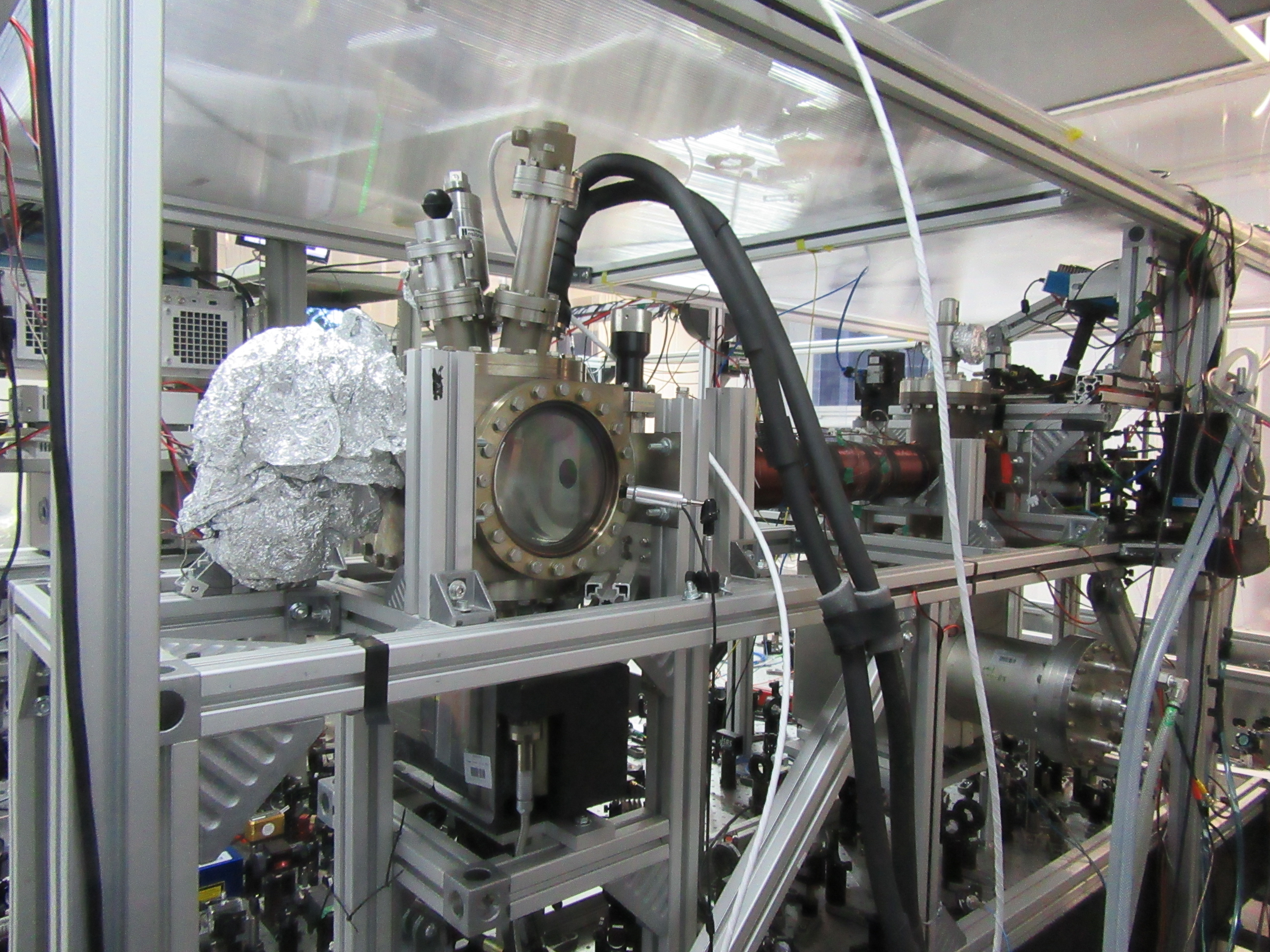 National Laboratory of Atomic, Molecular and Optical Physics in Nicolaus Copernicus University in Toruń (Poland). Equipment for obtaining and researching ultracold atoms.